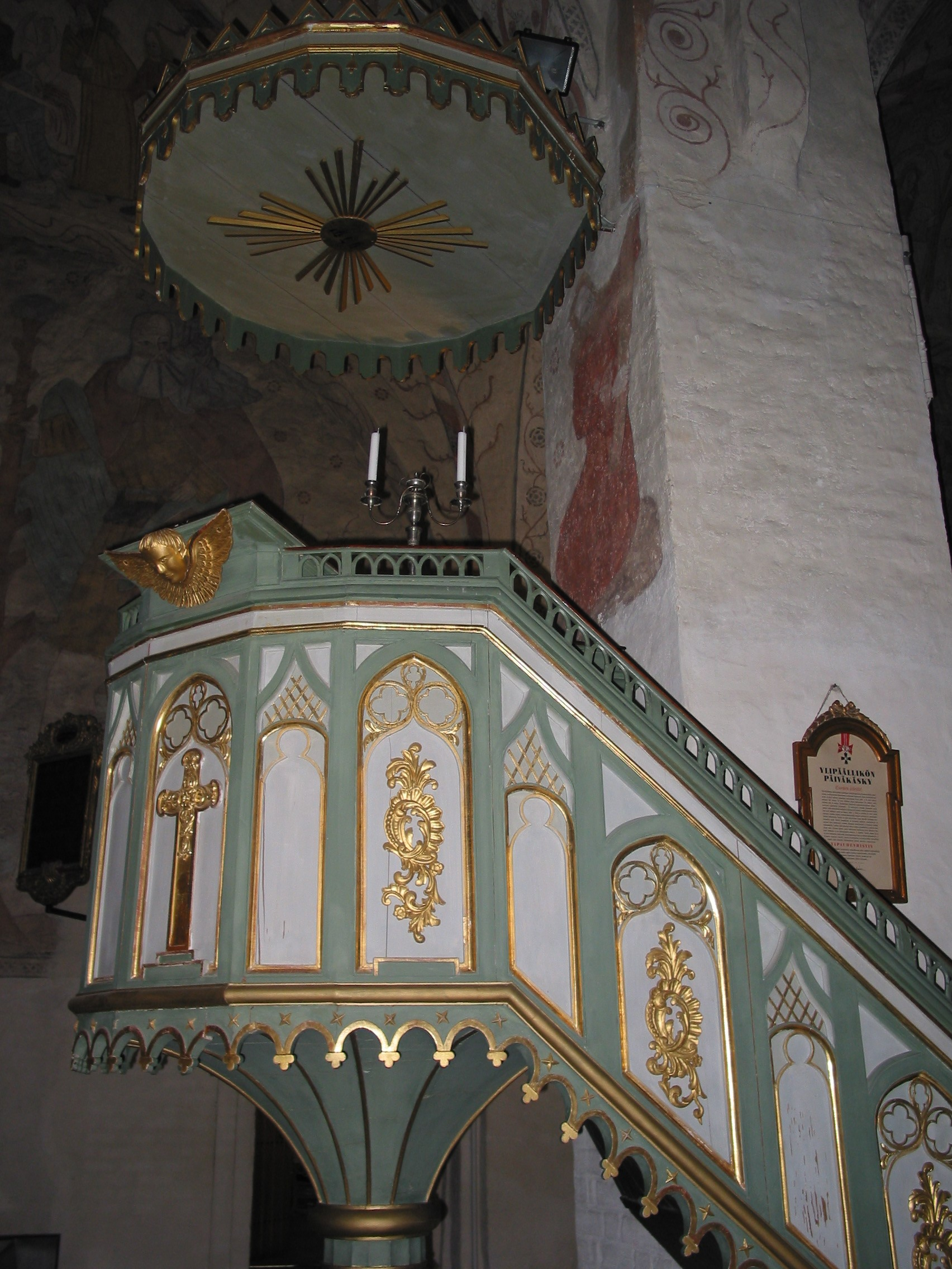 Pulpit in Lohja Church, Finland